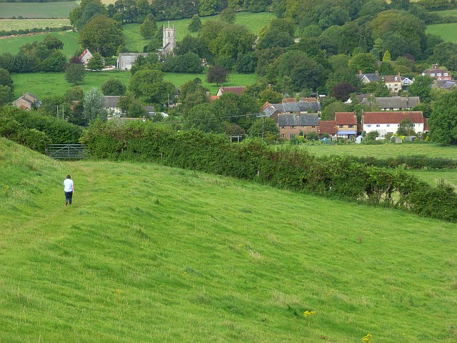 Sydling St Nicholas Showing the southern end of the village from the bridleway descending from Eastfield Hill.